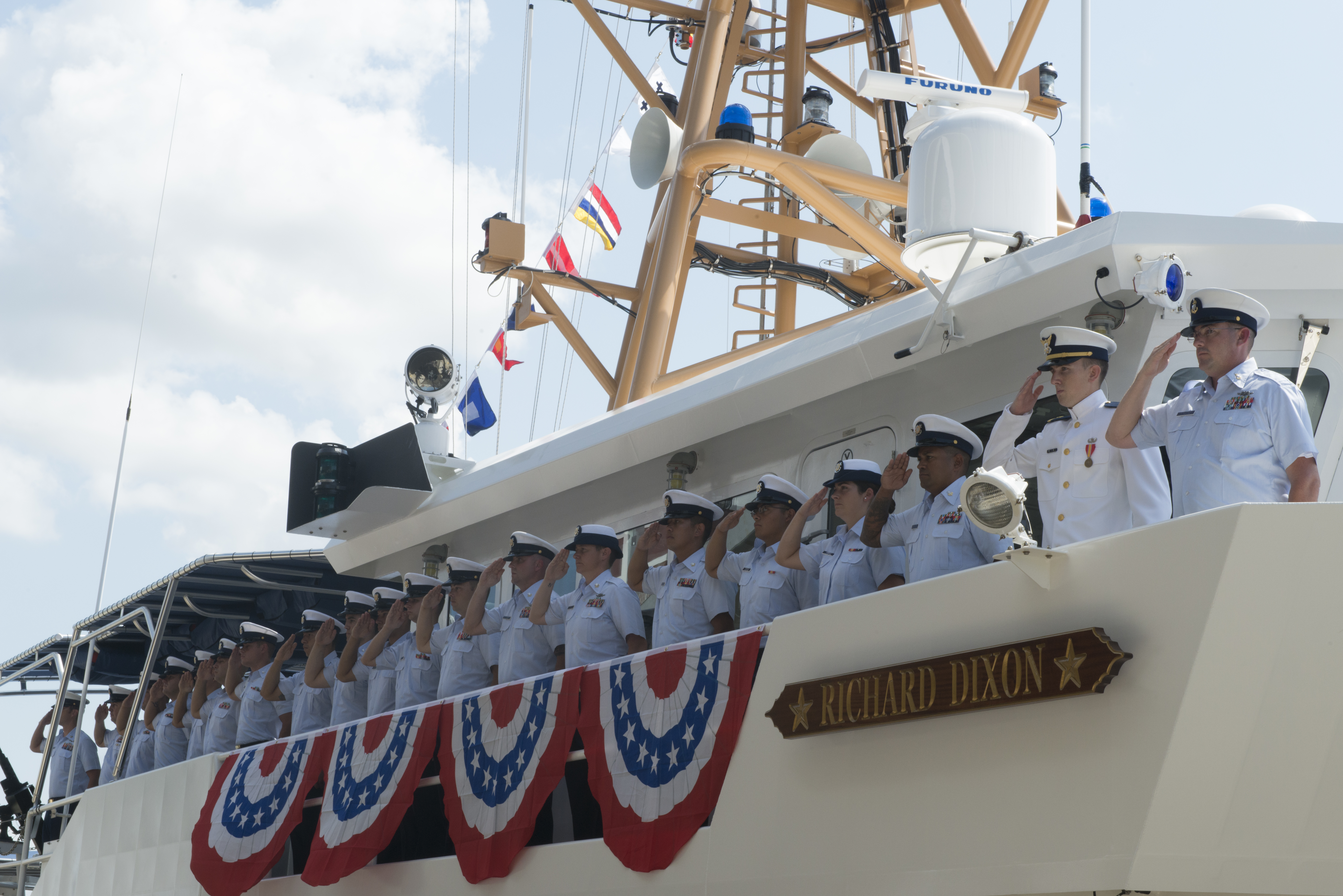 Crew members man the U.S. Coast Guard Cutter Richard Dixon for the first time after its commissioning and salute symbolizing they have officially manned their stations, at a commissioning ceremony in Tampa, Fla., Saturday, June 20, 2015. The Richard Dixon is Puerto Rico's first fast response cutter to be commissioned. (U.S. Coast Guard photo by Petty Officer 3rd Class Ashley J. Johnson)